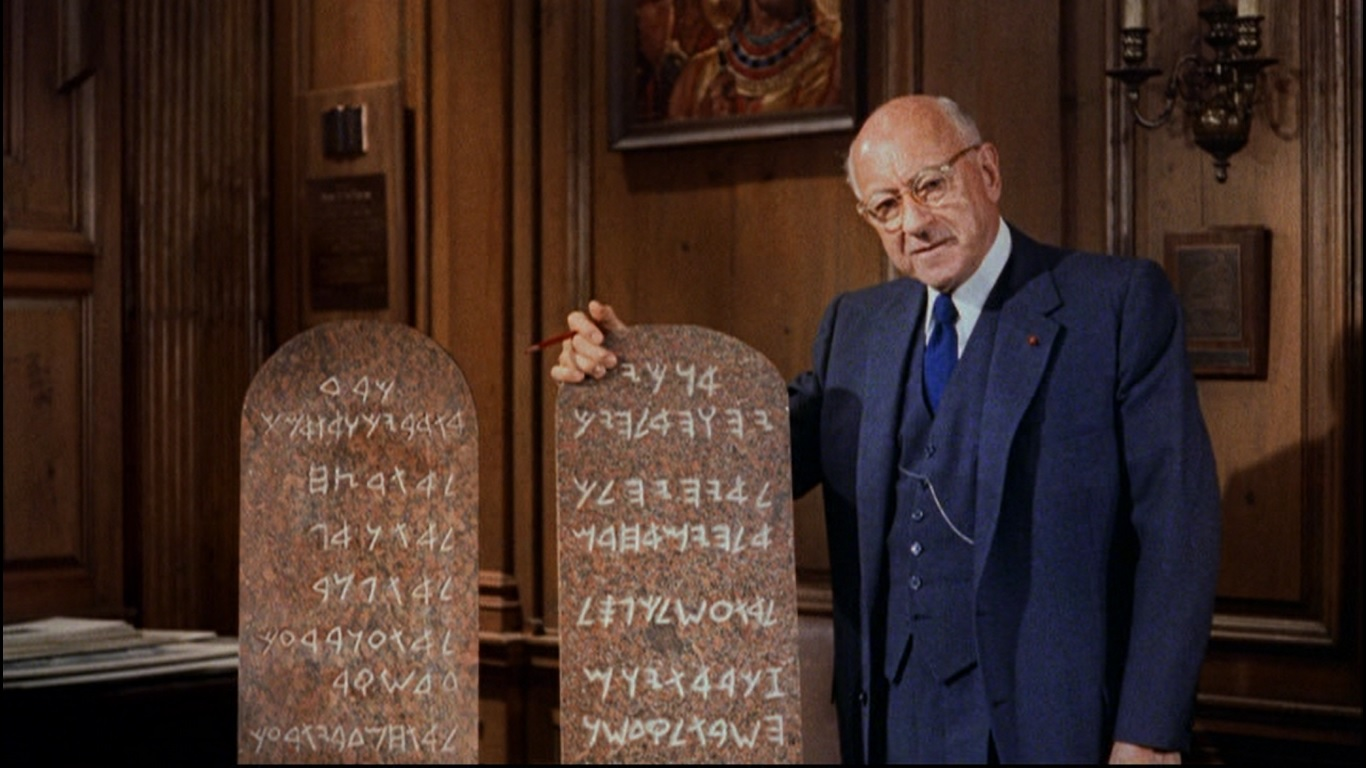 Screenshot of Cecil B. DeMille from the trailer for the film The Ten Commandments.